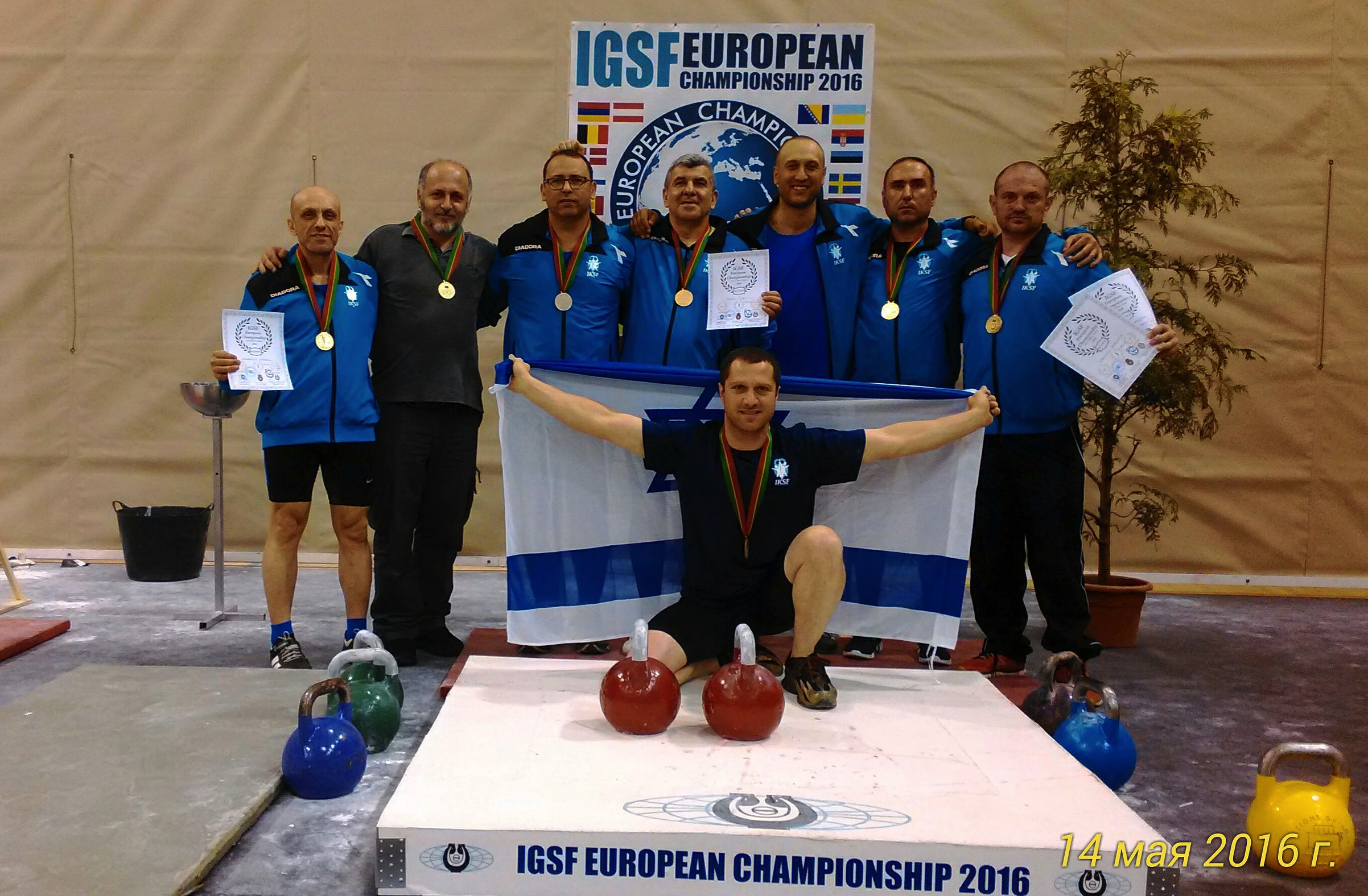 Сборная Израиля на чемпионате мира 2016 - Португалия